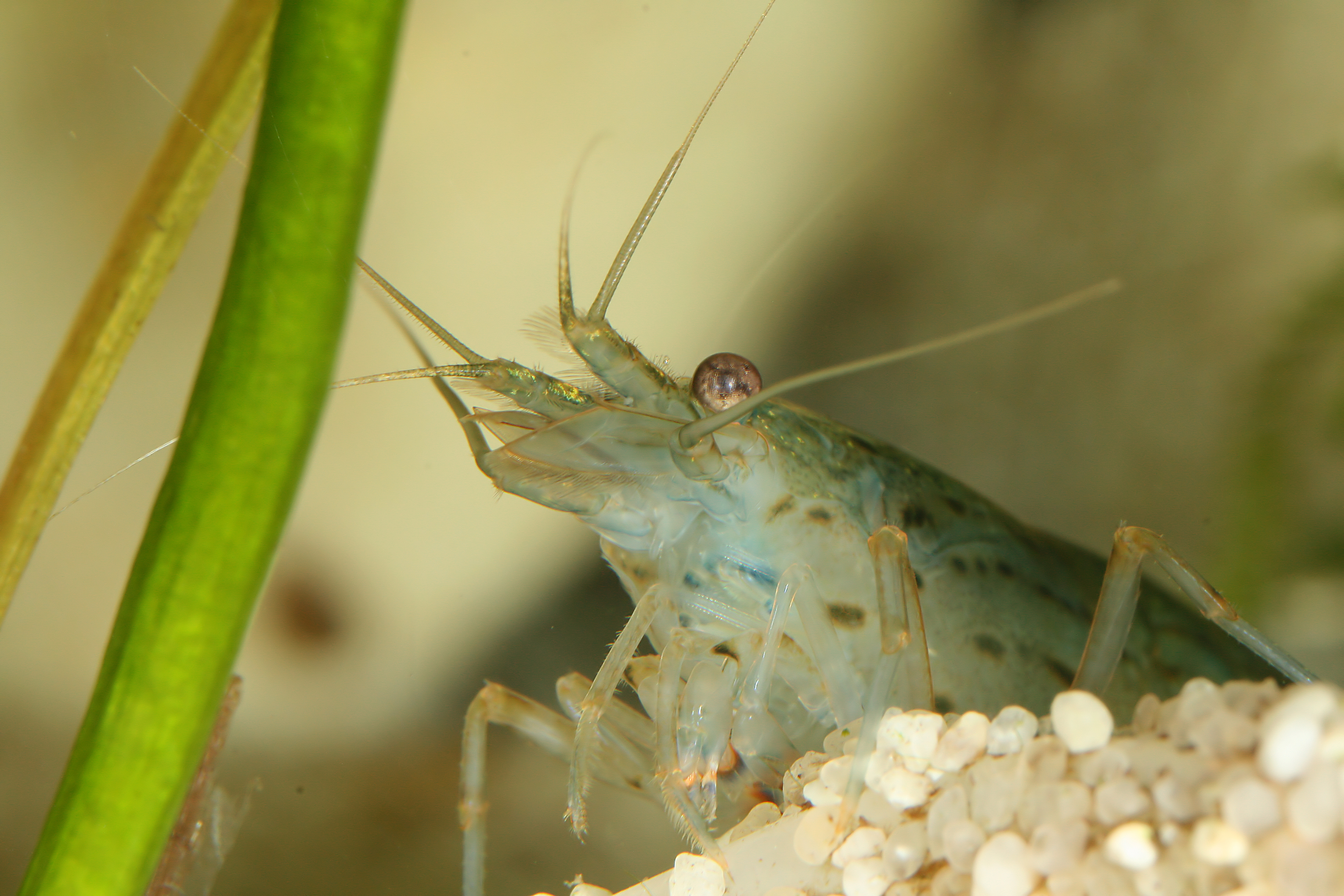 Description: Closeup of a Amano or Yamatonuma Shrimp (Caridina multidentata)